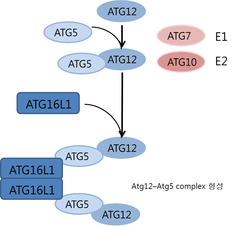 Machroautophage_Elongation